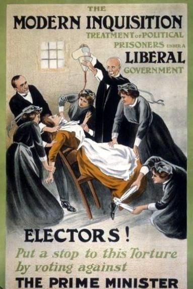 Poster by 'A Patriot', showing a suffragette prisoner being force-fed, 1910